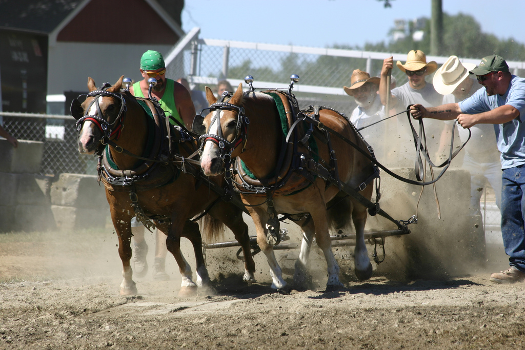 These horses are pulling a sled which has several (I heard quarter-ton, but I could be wrong) blocks on it. To compete in this way, they march the horses up to the sled, hitch them to it as quickly as they can, then the man in blue (at right) starts yelling and hollering "ya! ya!" and similar syllables as loudly and insistently as he can; the horses respond by dragging the sled for all they're worth. It's apparently an extraordinarily popular event at the fair, and it looks really nifty when you stop the motion like this. Thanks, burning might of the daystar! 2/IMG_6185